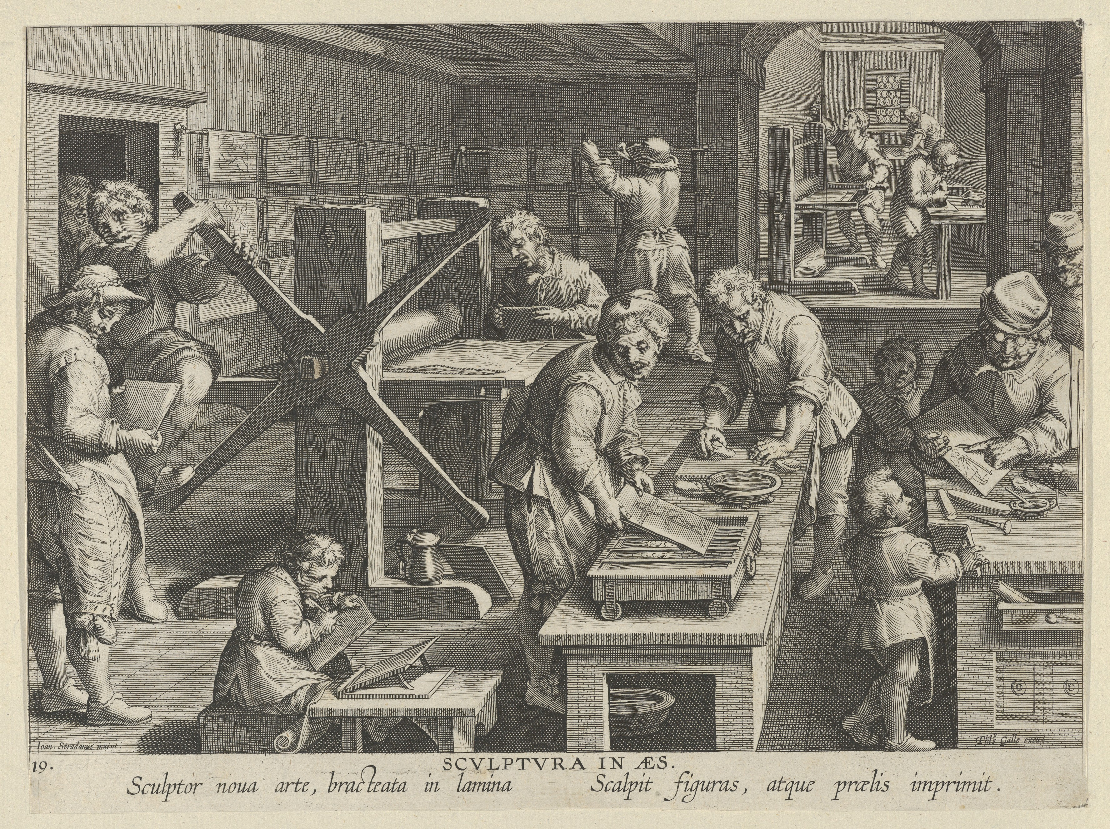 Print; Prints